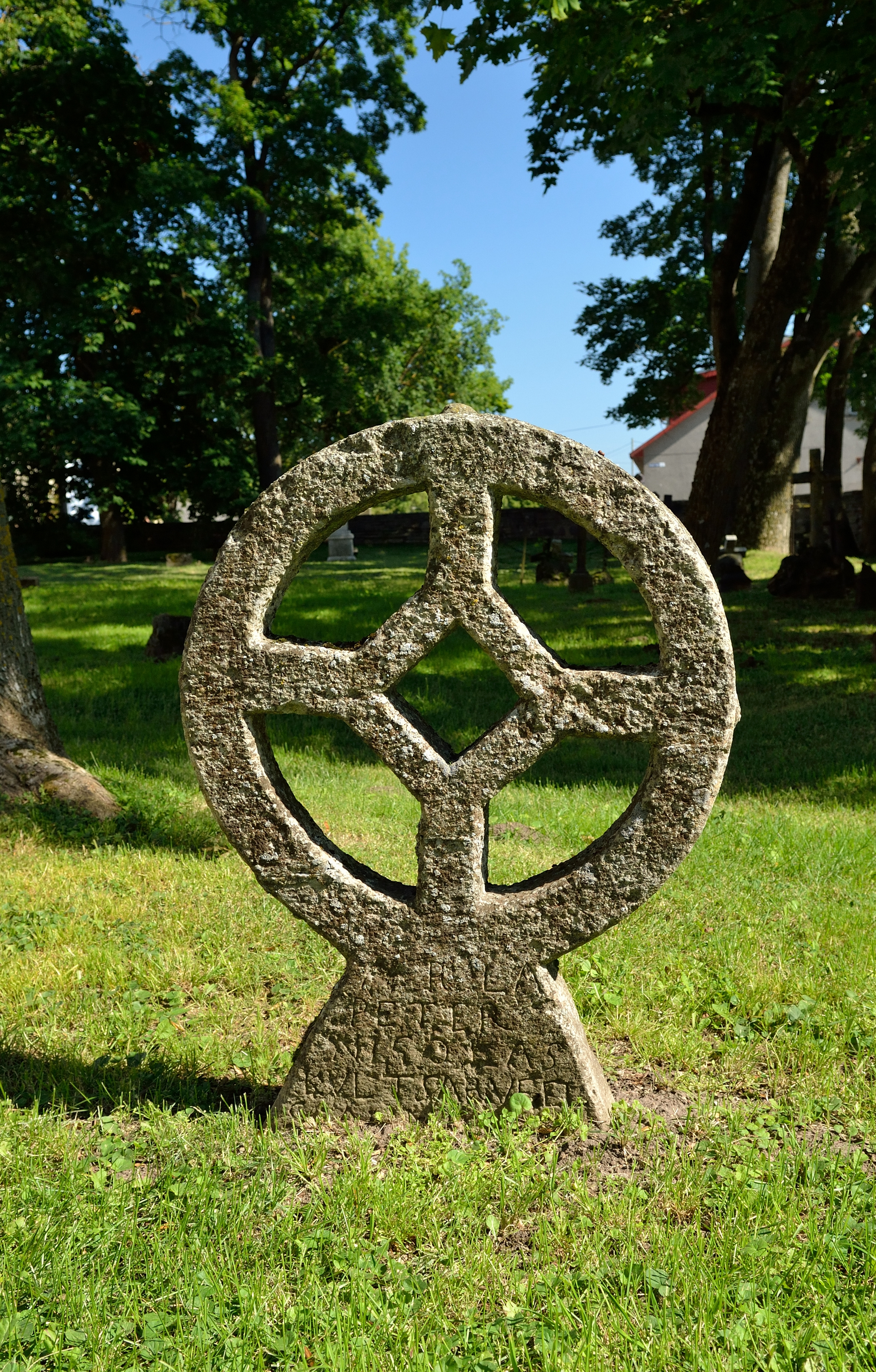 Stone cross in Viru-Nigula churchyard